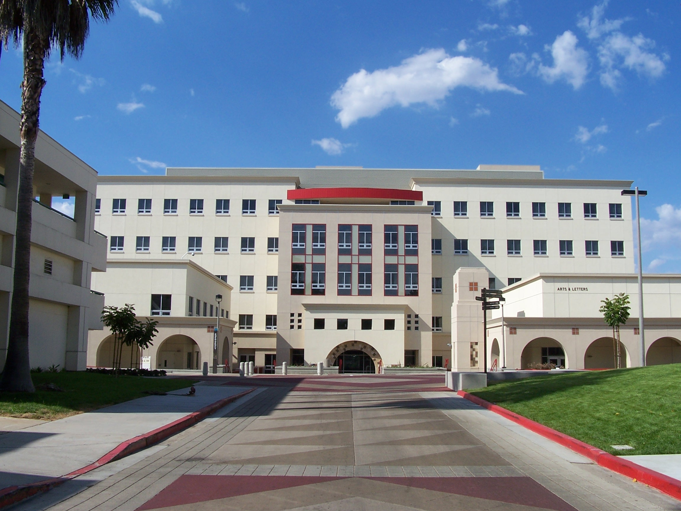 The completed Arts and Letters building at San Diego State University. The building finished construction in the summer of en:2006, and students began using the classrooms on August 28, en:2006. Picture taken on September 4, en:2006 by User:Nehrams2020